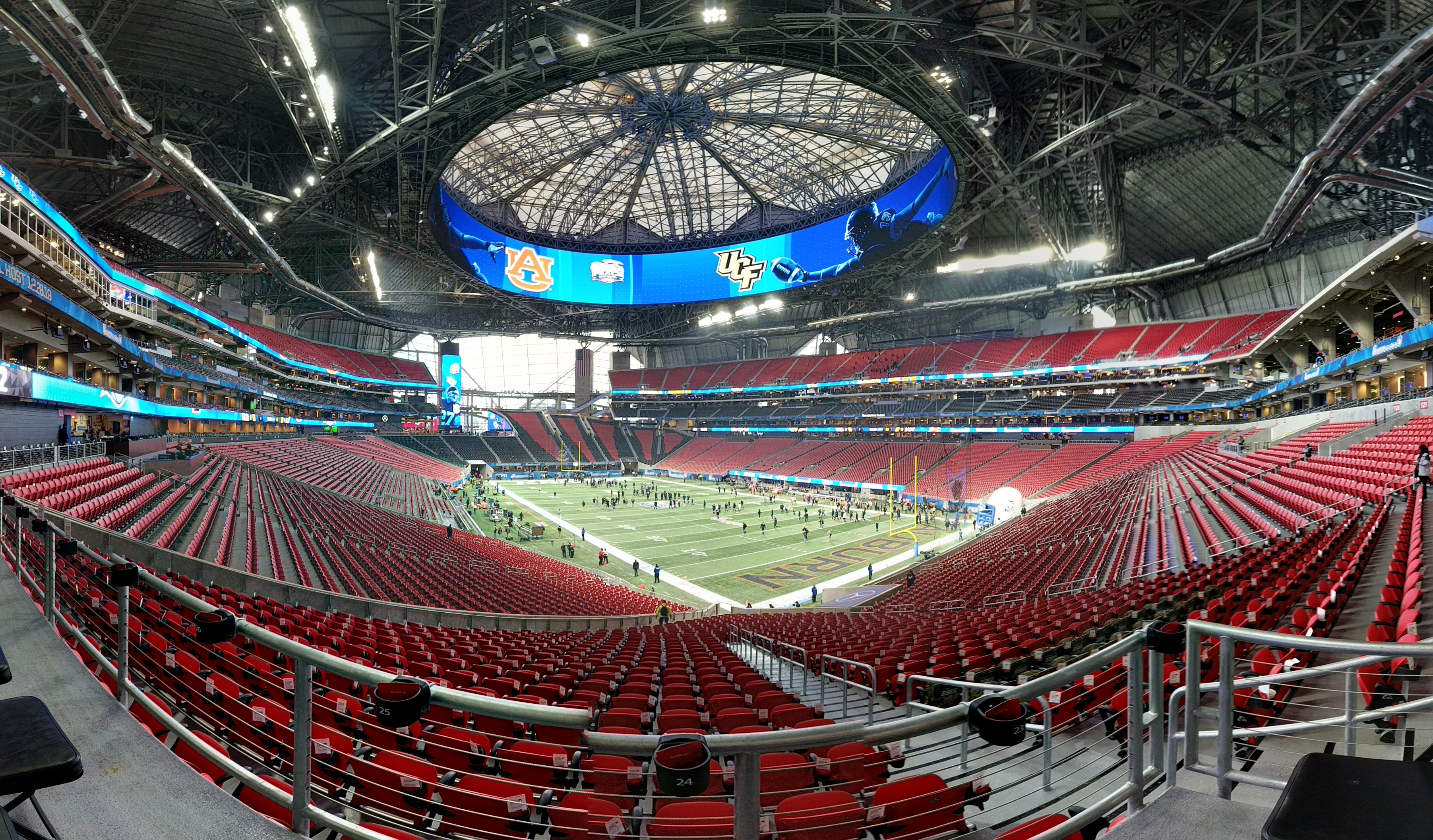 100 level photo sphere